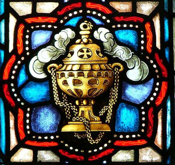 Window in the Apse of St. Ignatius Church, Chestnut Hill,MA, Photograph by John P. Workman, Jr.